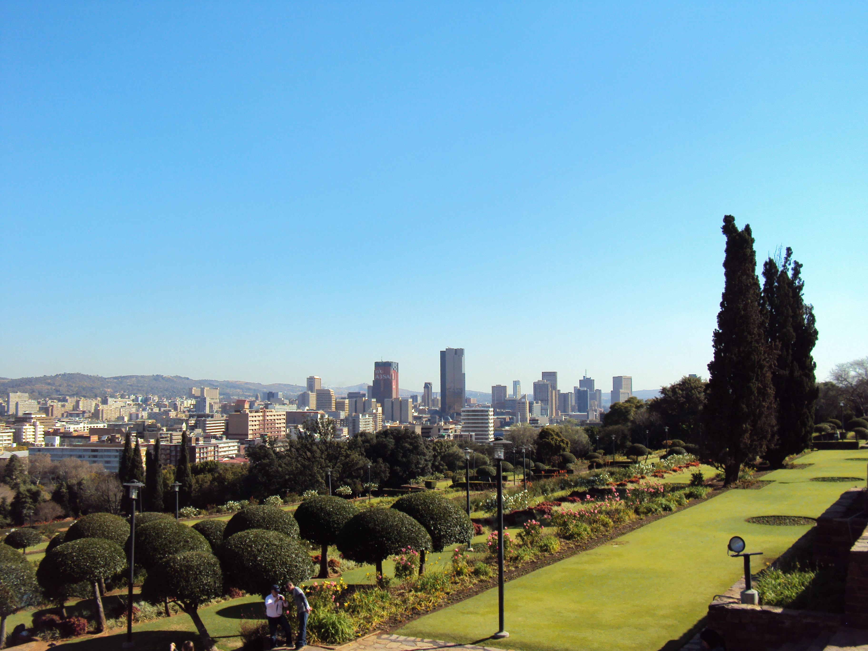 Downtown Pretoria from Union Buildings